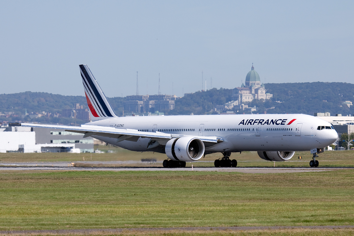 An Air France Boeing 777-300ER landing at Montréal-Pierre Elliott Trudeau International Airport in September 2009.